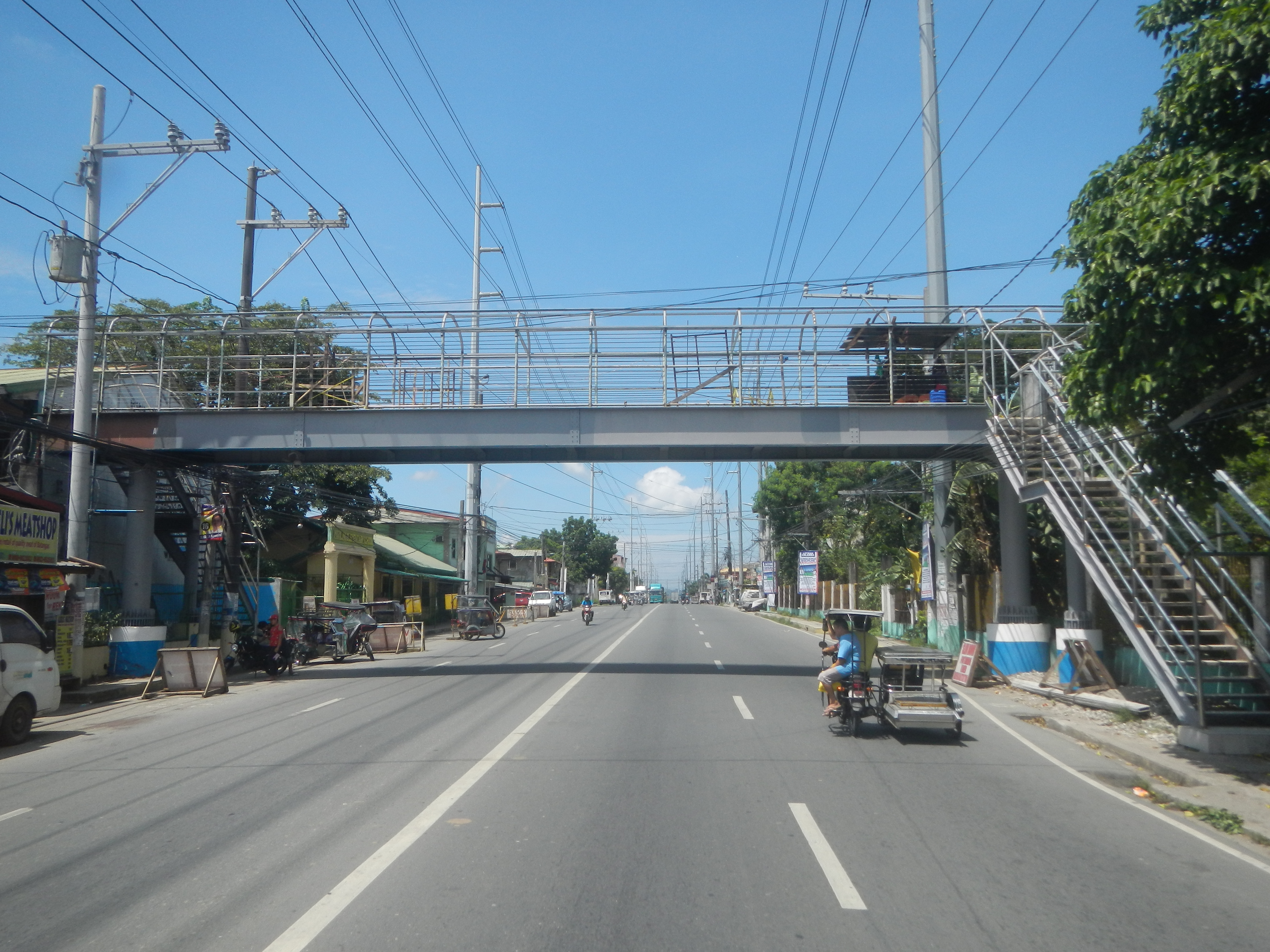 Maharlika Highway (Real, Turbina, Milagrosa & Makiling, Calamba City section) Pan-Philippine Highway; in Barangays Real, Calamba Real 14°11'49"N 121°9'2"E Turbina 14.1917, 121.1408 Milagrosa 14.1758, 121.1370 Makiling 14.1571, 121.1387 Calamba, Laguna Calamba Poblacion Poblacion 14°12'32"N 121°9'46"E (Note: Judge Florentino Floro, the owner, to repeat, Donor Florentino Floro of all these photos hereby donate gratuitously, freely and unconditionally Judge Floro all these photos to and for Wikimedia Commons, exclusively, for public use of the public domain, and again without any condition whatsoever).